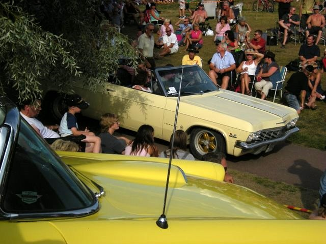 Classic Car Week in Rättvik